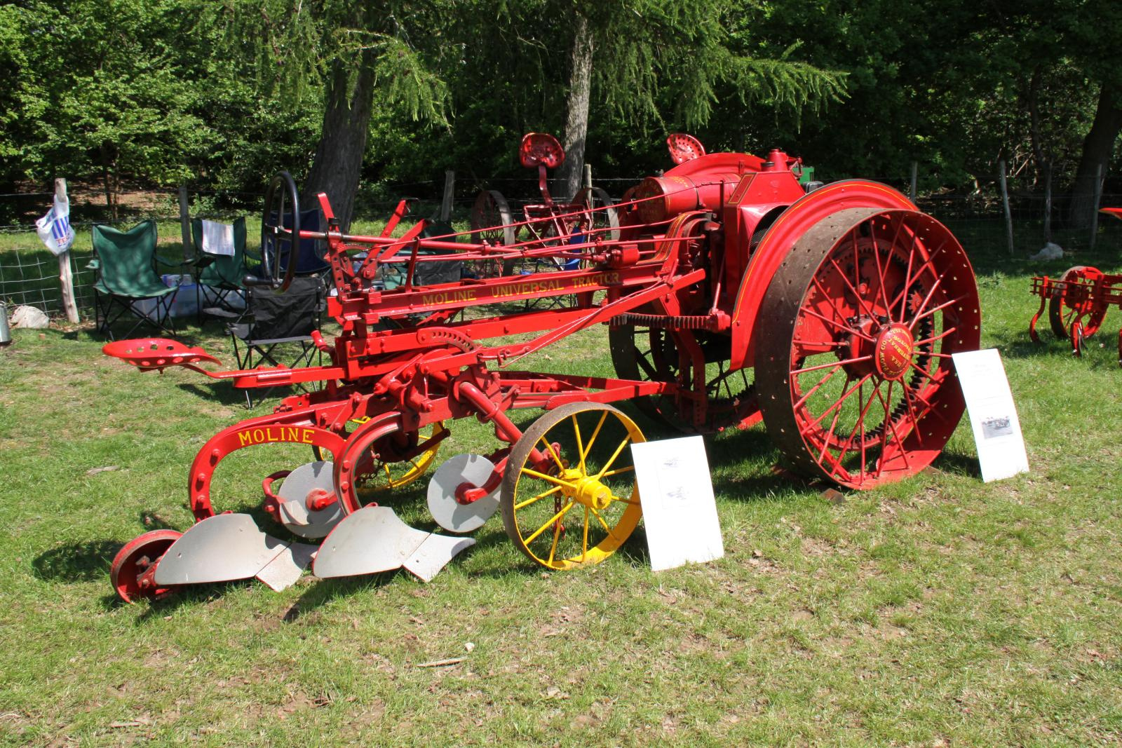 Moline Universal tractor at Woolpit Steam, Wetherden UK